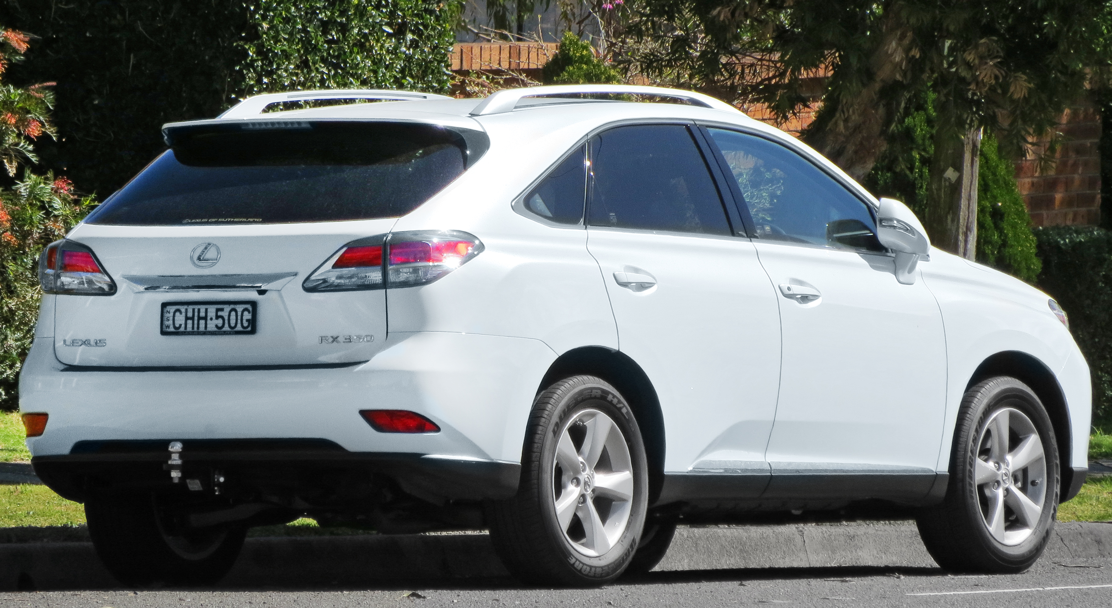 2012 Lexus RX 350 (GGL15R) Luxury wagon. Photographed in Miranda, New South Wales, Australia.